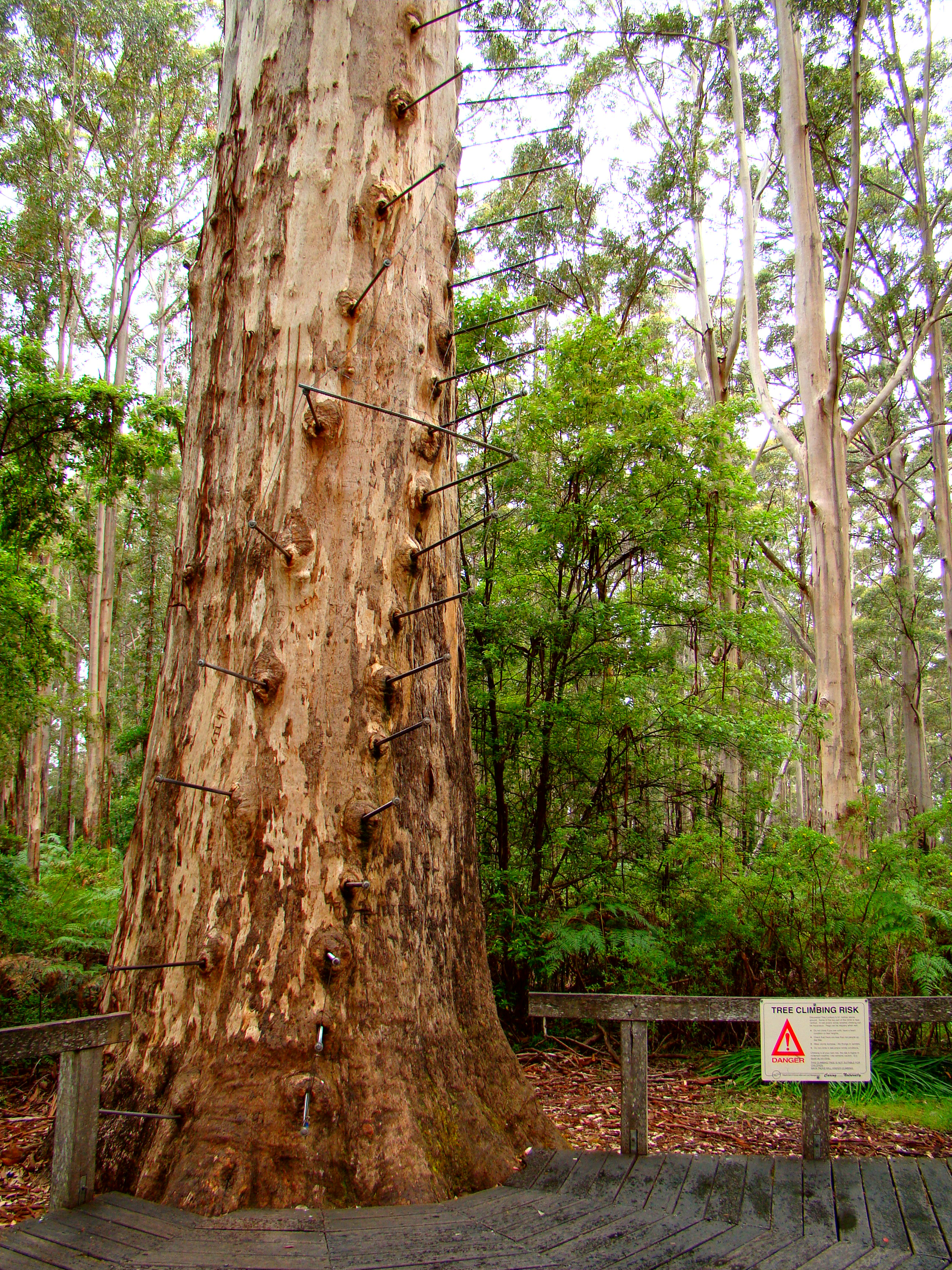 The base of the Gloucester Tree just outside Pemberton, Western Australia. It was originally used as a fire lookout tree, but in recent years it has become a tourist attraction.